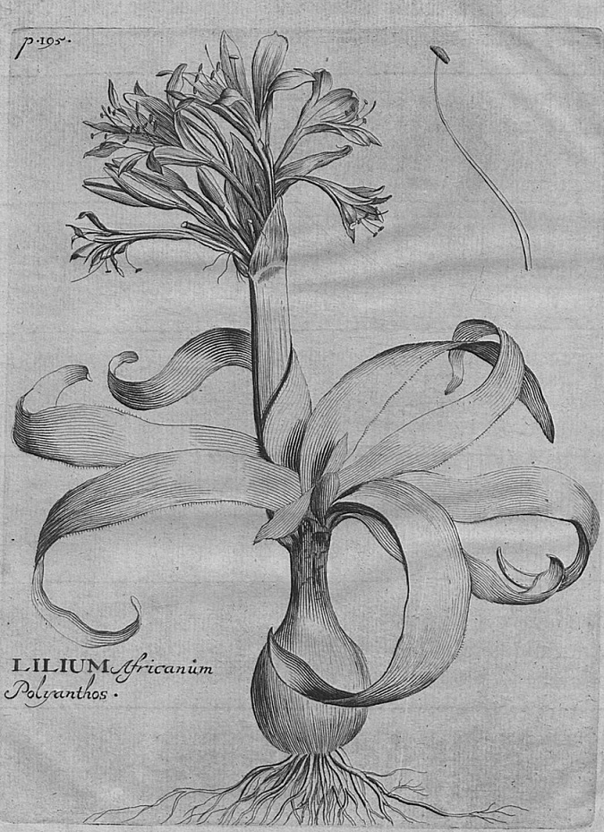 Botanical illustration of Ammocharis longifolia from Paul Hermann Paradisus batavus (1698)